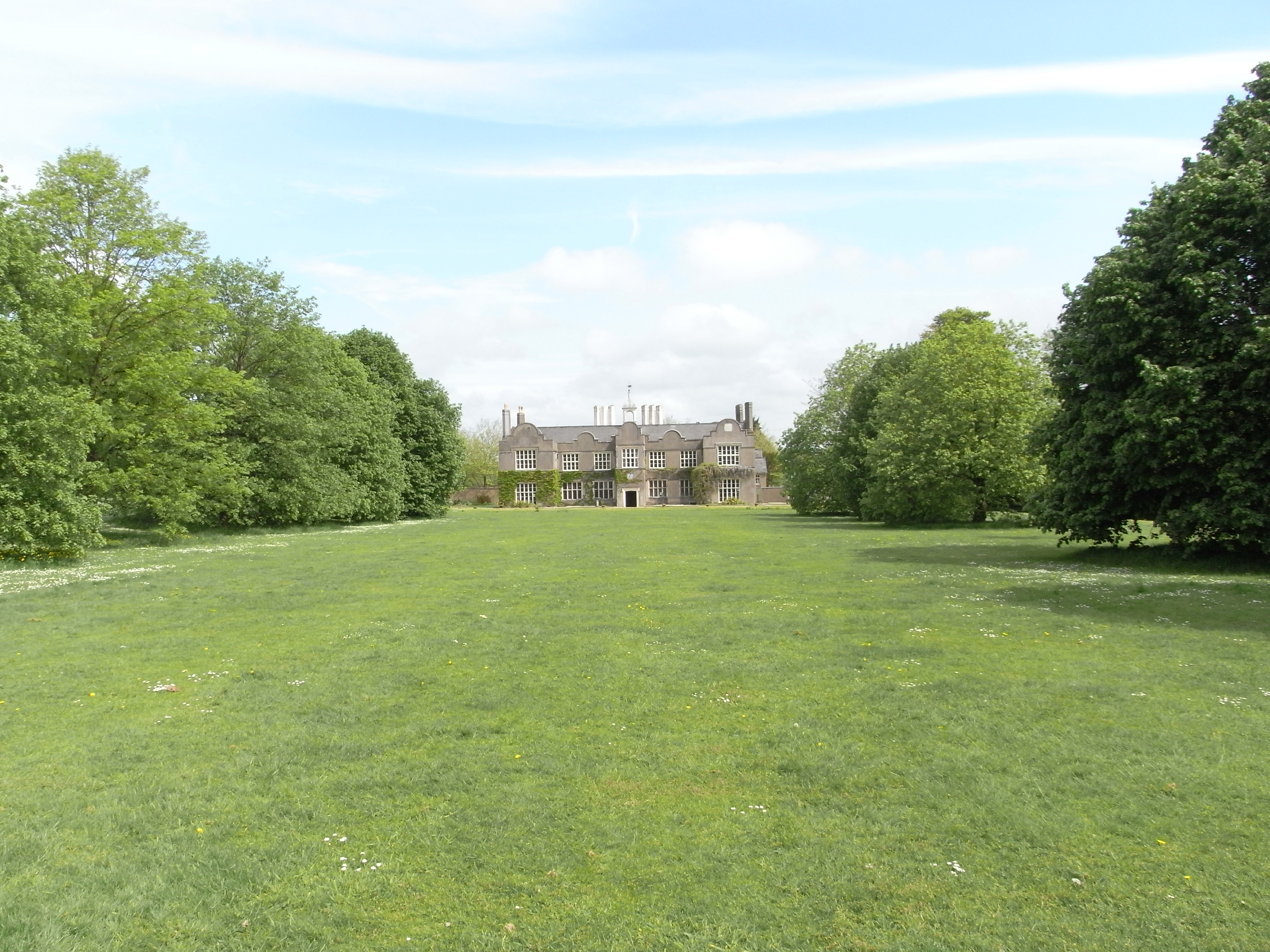 Forde House, Wolborough, Newton Abbot, Devon, south front viewed from Brunel Road